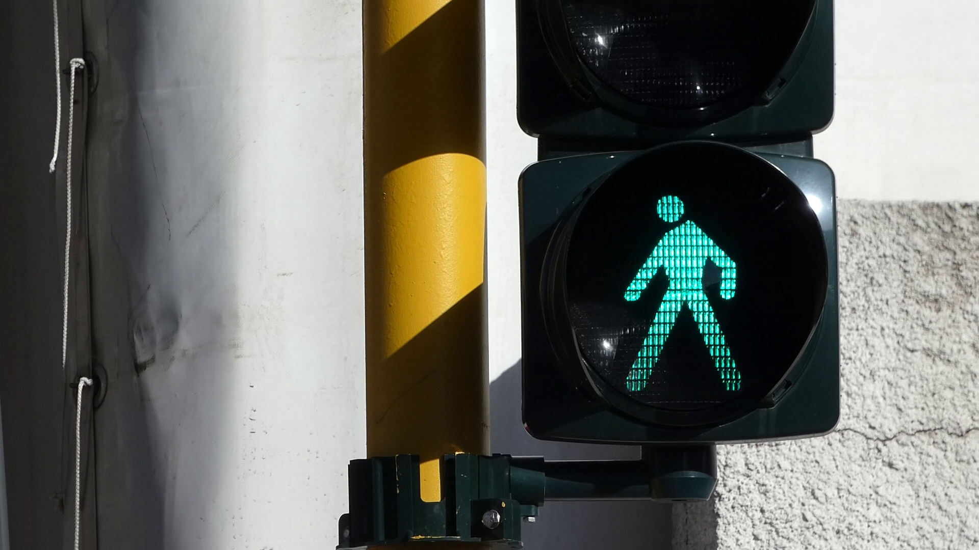 A traffic light.